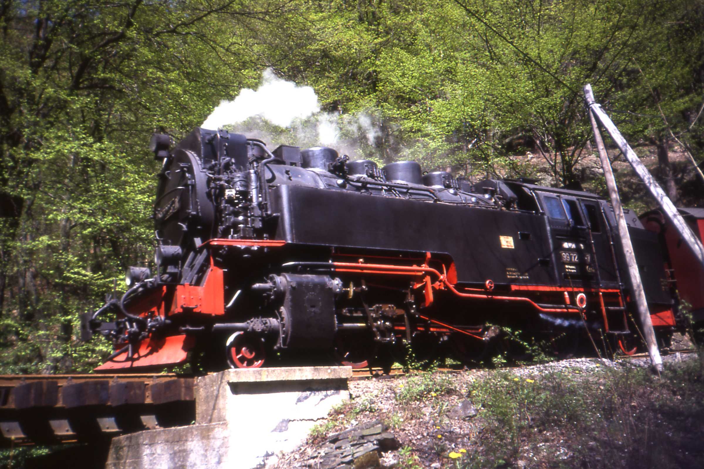 This train from Gernrode to Stiege is about to cross a small bridge on the Selke. The locomotive's number is hidden apart from the check number of 7.